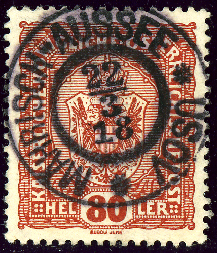 Austrian KK 80 heller stamp issue 1916, bilingual cancelled MÄHRISCH-AUSSEE * USOV in March 1918, Moravia